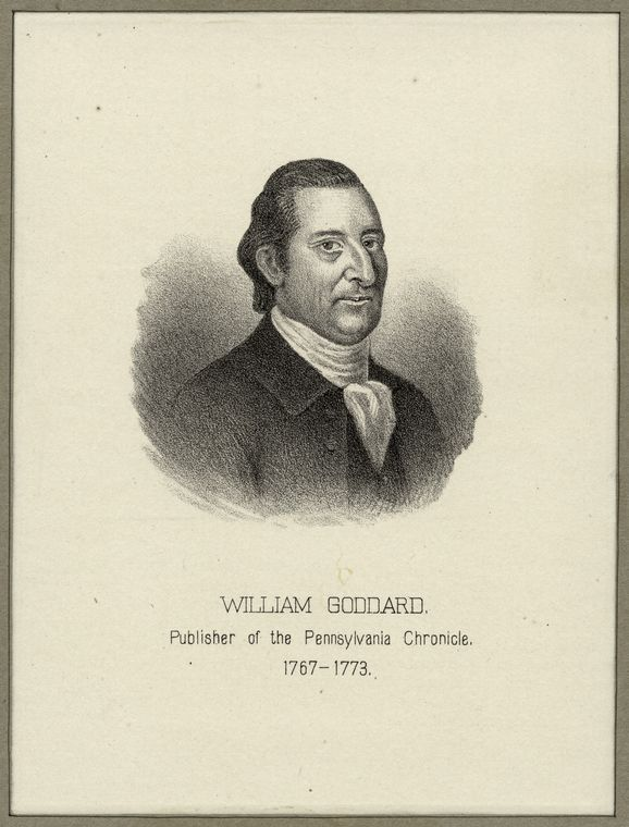 Drawing of William Goddard, Philadelphia colonial printer